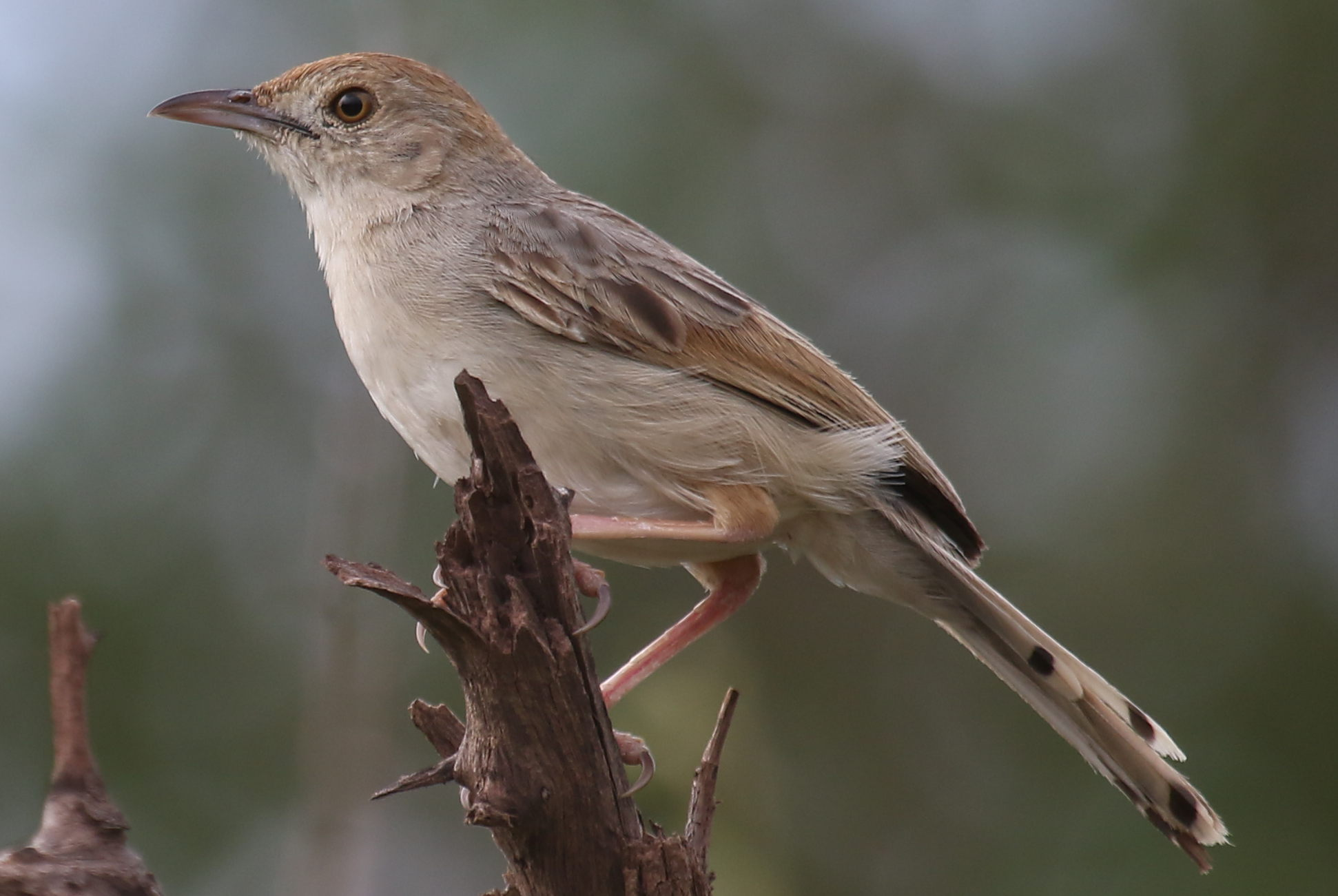 Rattling cisticola in Marakele National Park, Limpopo, South Africa